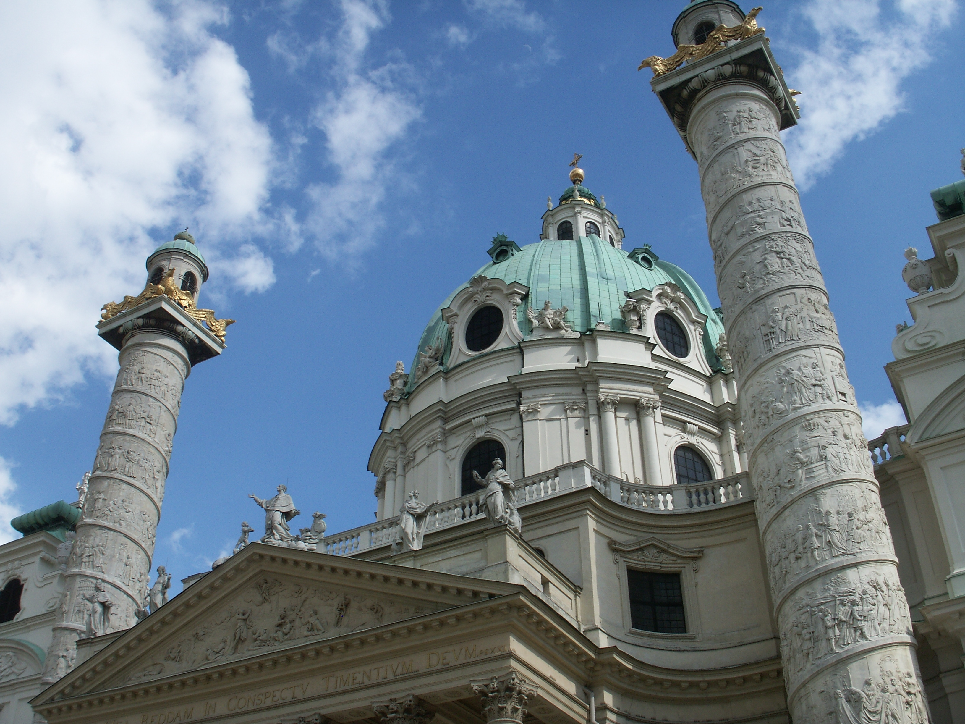 Austria, Vienna, St. Charles's Church